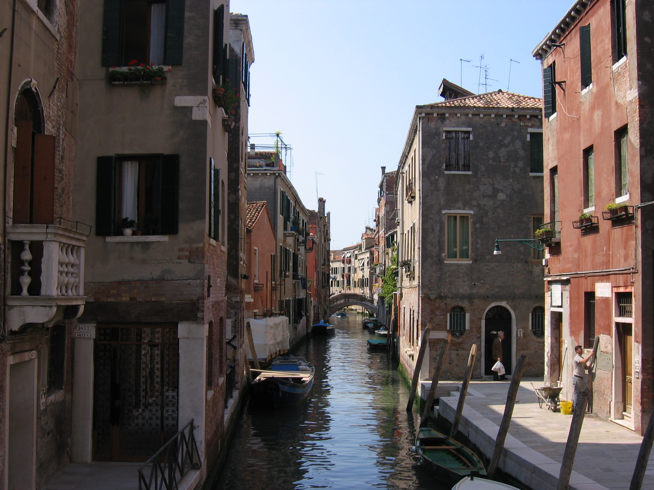 View of Rio (canal) San Zan Degolà from Bembo bridge, Venice (Italy)